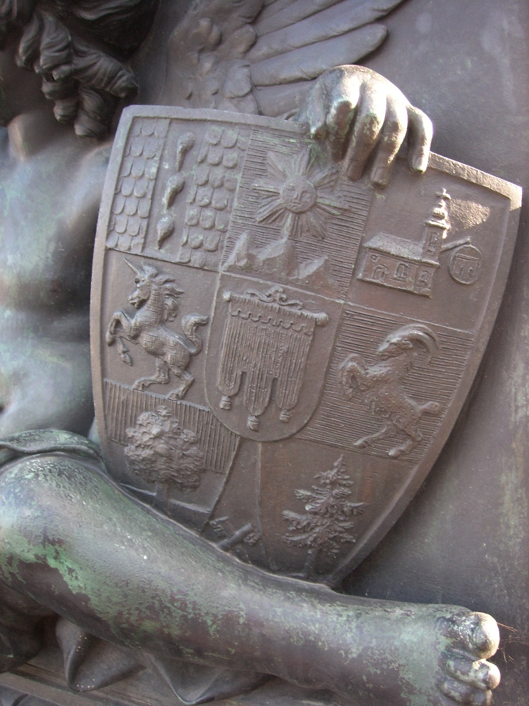 Old coat of arms of Vorarlberg.